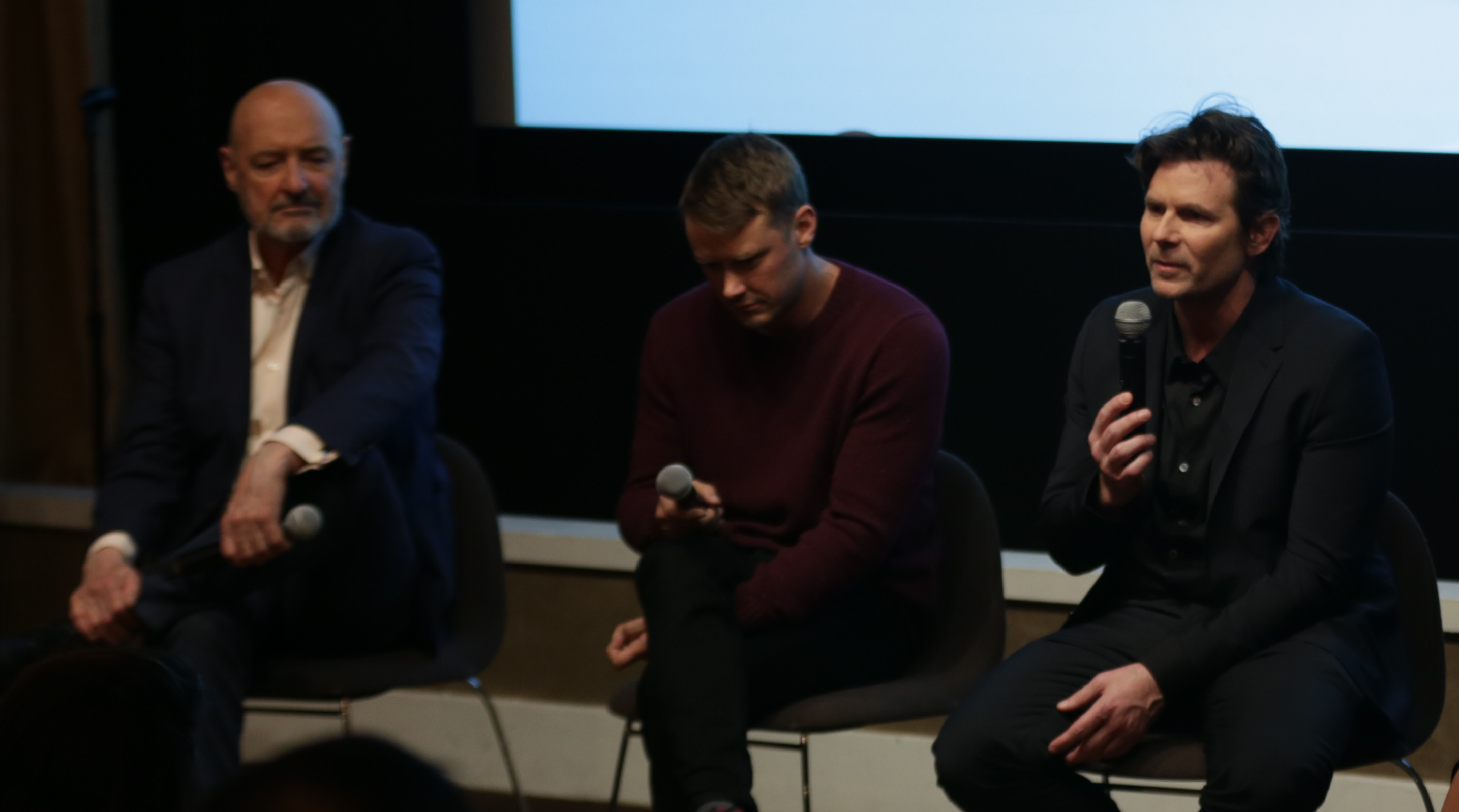 Terry O'Quinn, Actor, Patriot Amazon TV series; Michael Dorman, Lead Actor, Patriot; Steve Conrad, Creator and Executive Producer, Patriot